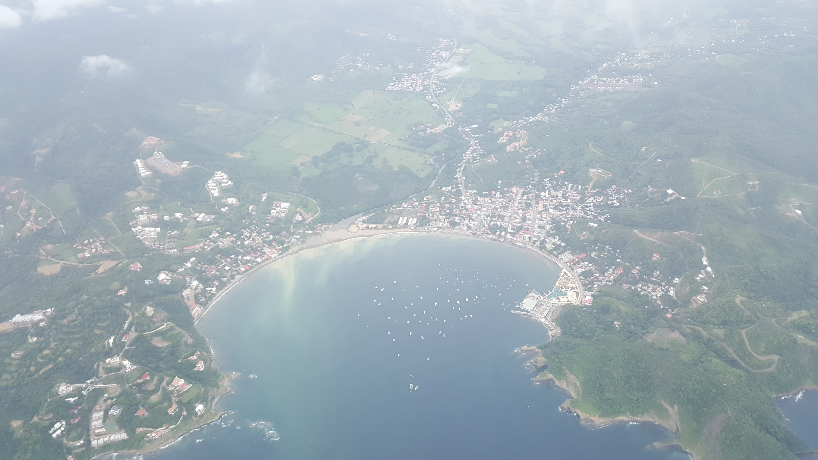 San Juan del Sur, Nicaragua. View from SANSA Flight (Liberia-Costa Esmeralda)